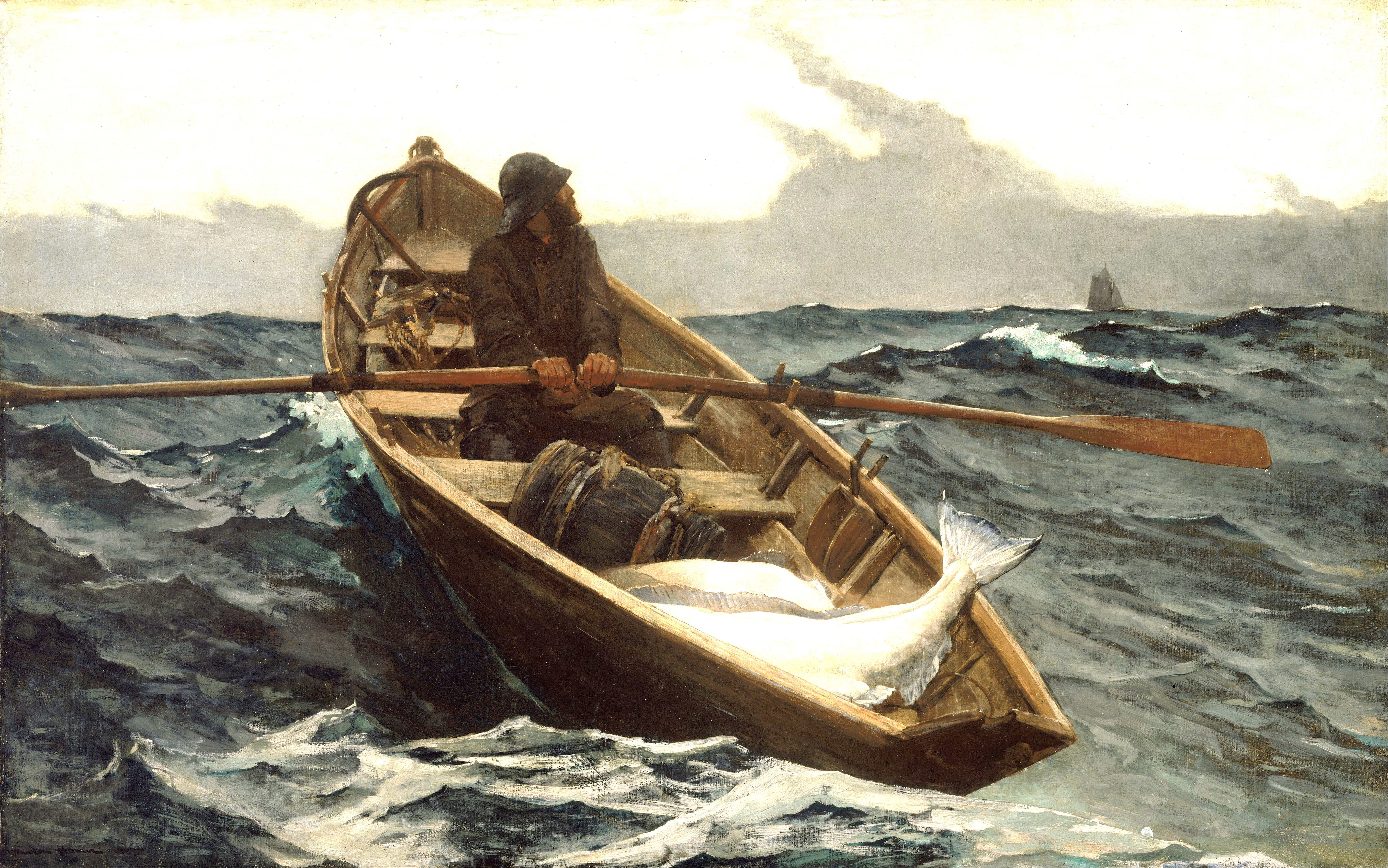 The Fog Warning / Halibut Fishing A fisherman on the Grand Banks makes his way back to a mother ship in a dory laden with halibut